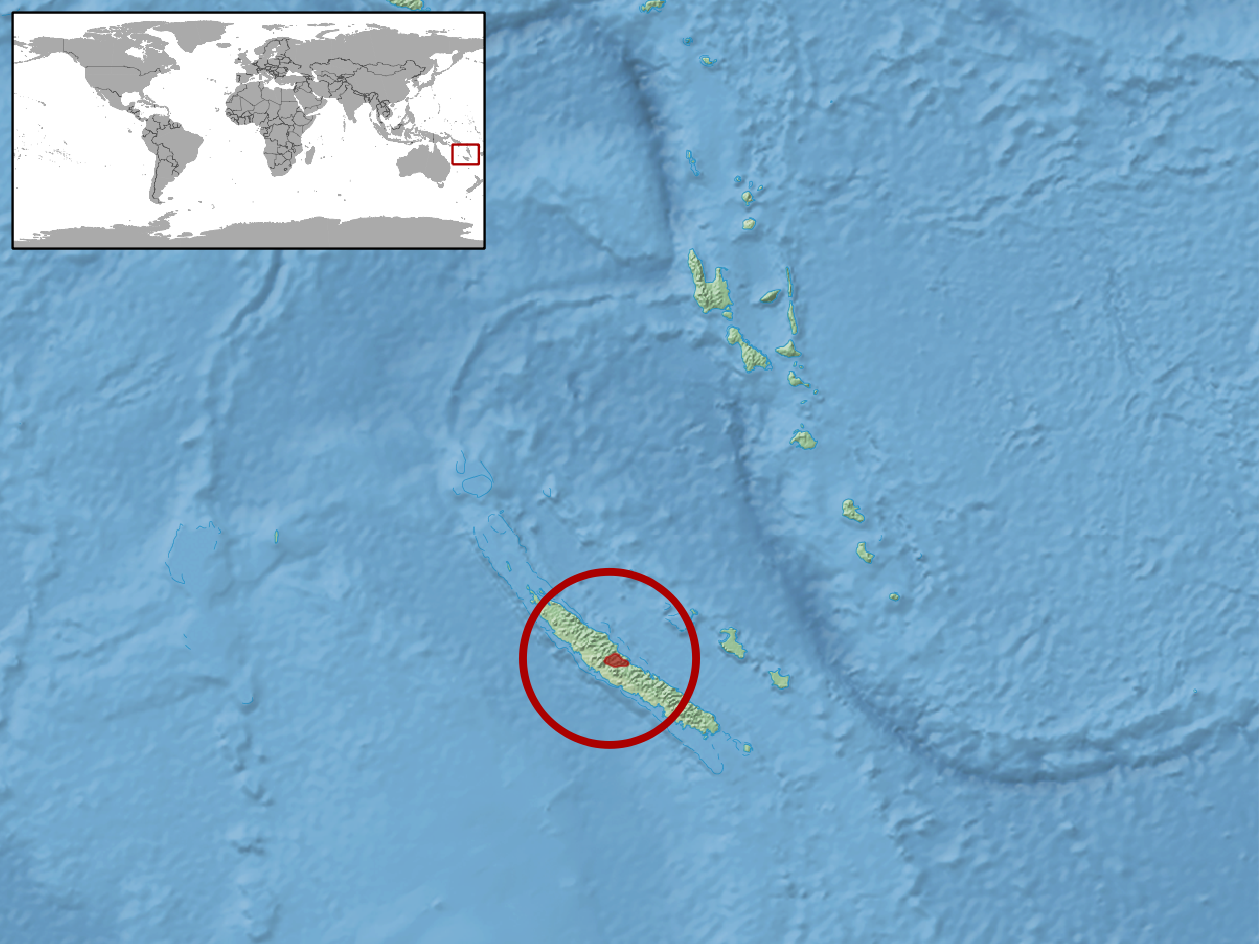 geographic distribution of Caledoniscincus renevieri